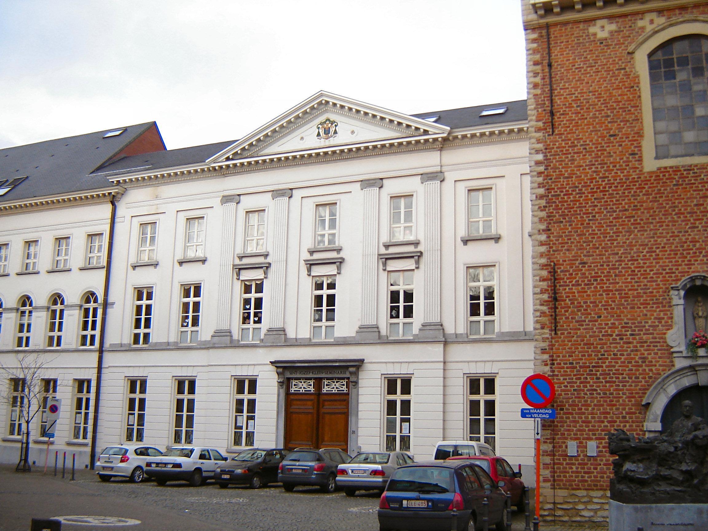 Sint-Jozef-Klein-Seminarie (Saint Joseph Minor Seminary) in Sint-Niklaas. Sint-Niklaas, East Flanders, Belgium